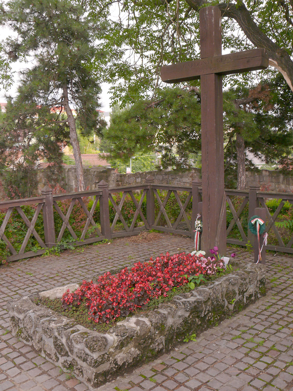 The grave of Hungarian writer Géza Gárdonyi in Eger